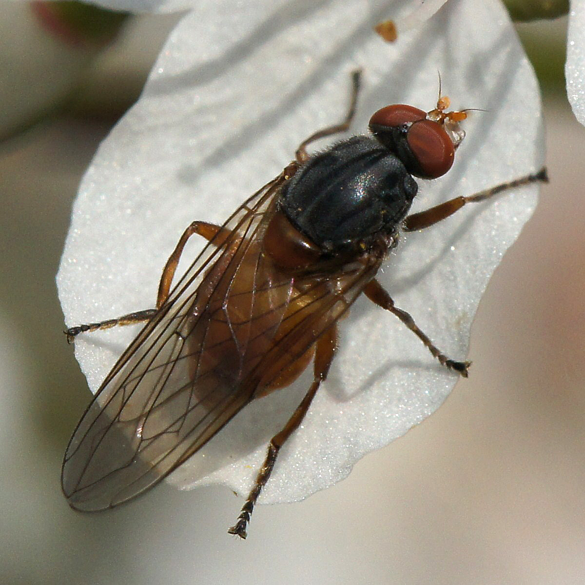 Brachypalpus laphriformis (male). Picture taken in Skåne, Sweden.